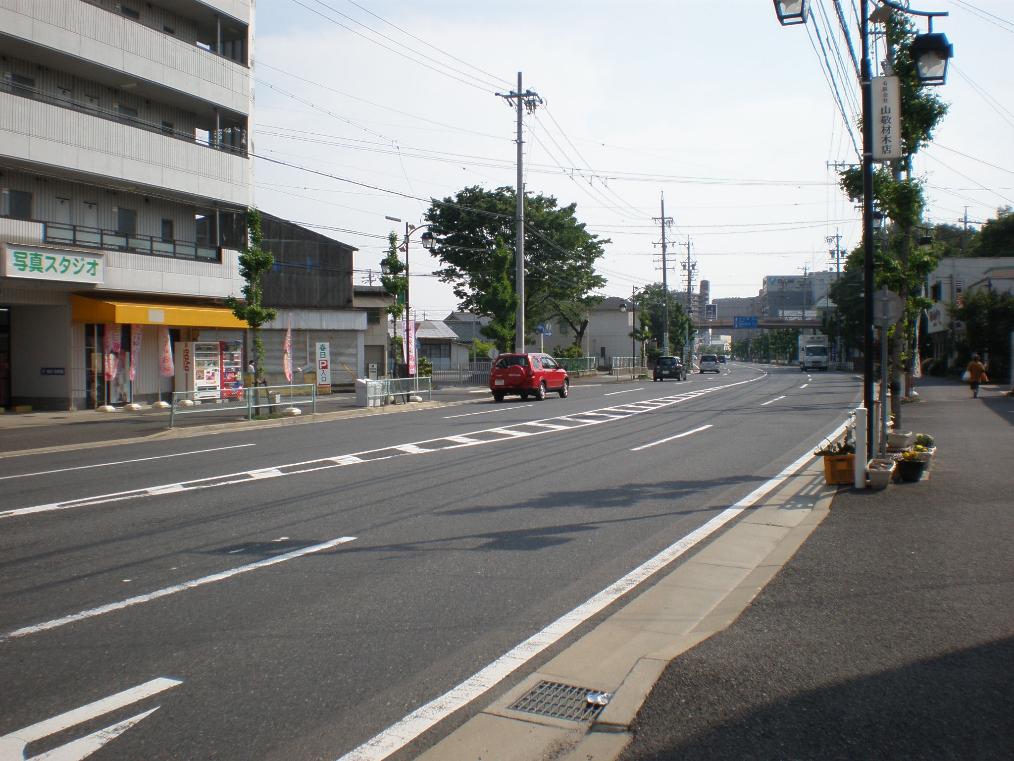 The Aichi Prefectural Road Route 508 in Kashiwaicho, Kasugai City